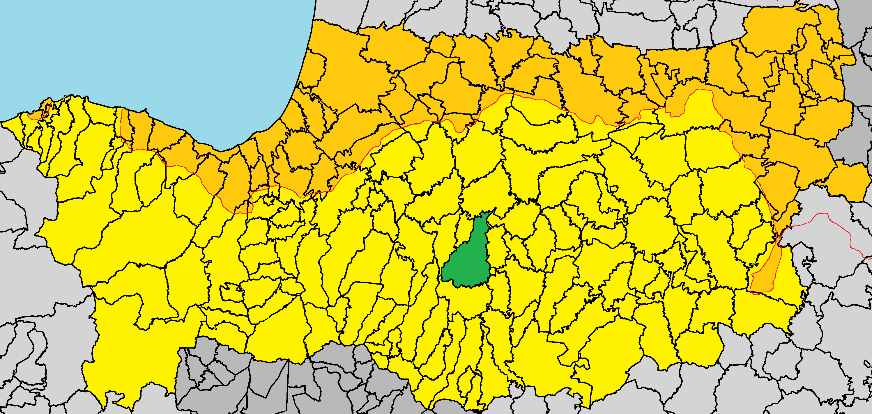 Mitsero in Nicosia District.